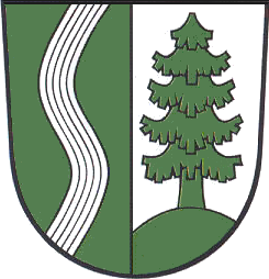 Coat of Arms of Schleusegrund